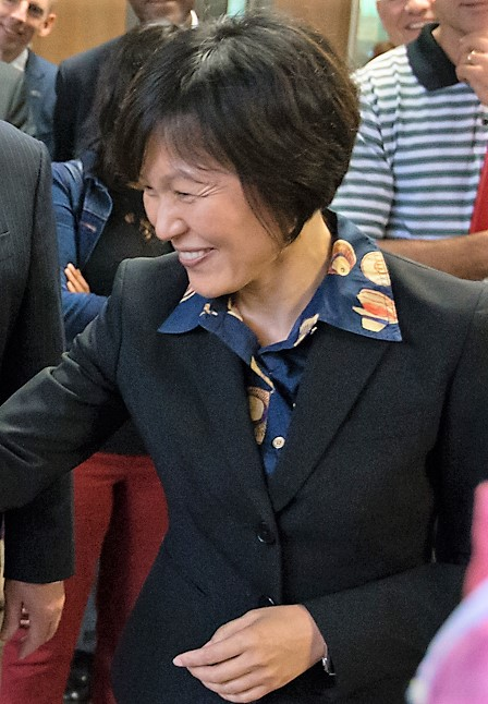 Qilin Li, Chinese environmental engineer and professor at Rice University, who develops new technologies to analyze and treat contaminated water. Baker Institute Science and Technology Policy Program and Rice University’s NSF Engineering Research Center for Nanotechnology-Enabled Water Treatment (NEWT) at Rice University in Houston Tuesday, April 11, 2017. (Photo by Michael Stravato)